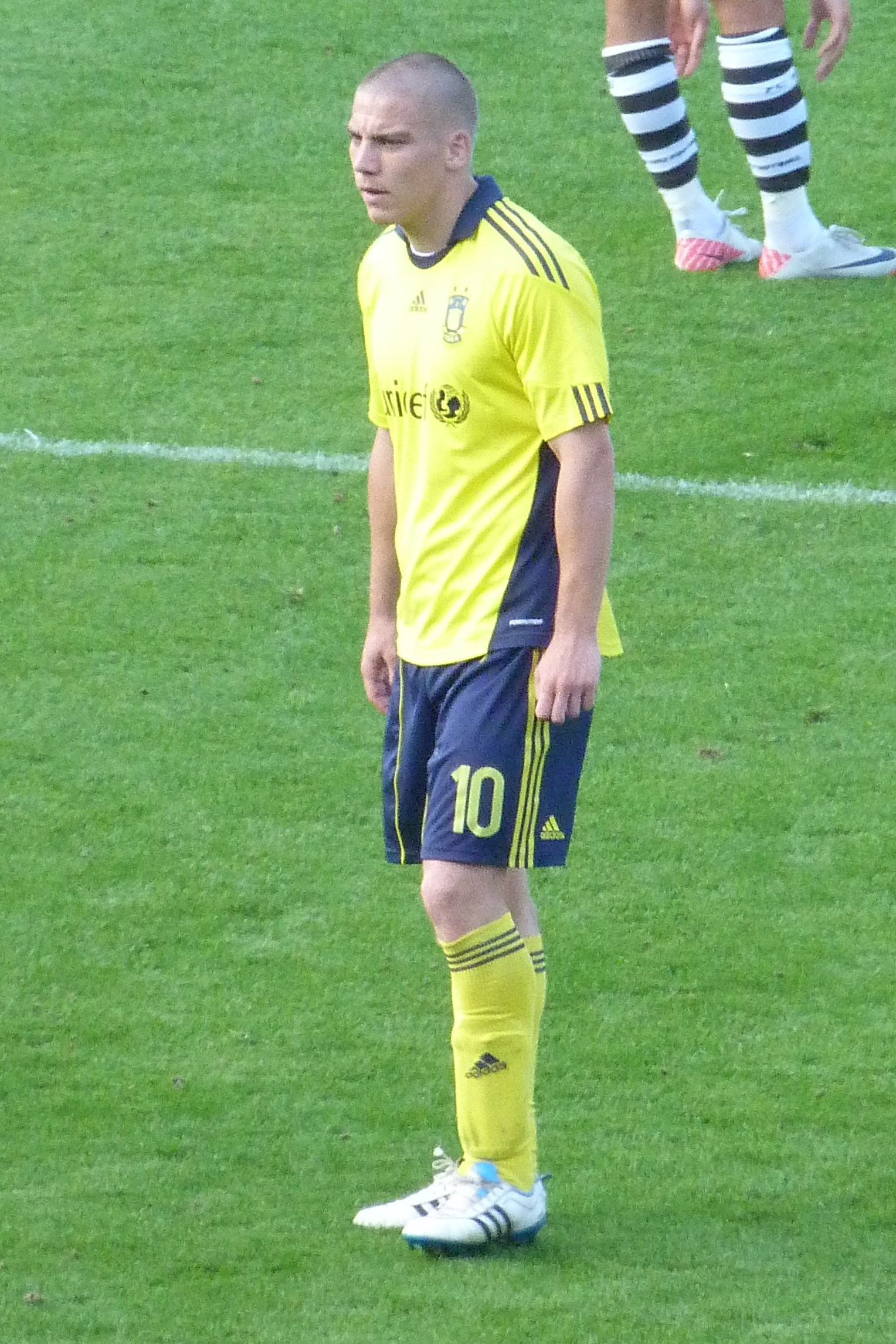 Martin Bernburg Player from Bröndby IF